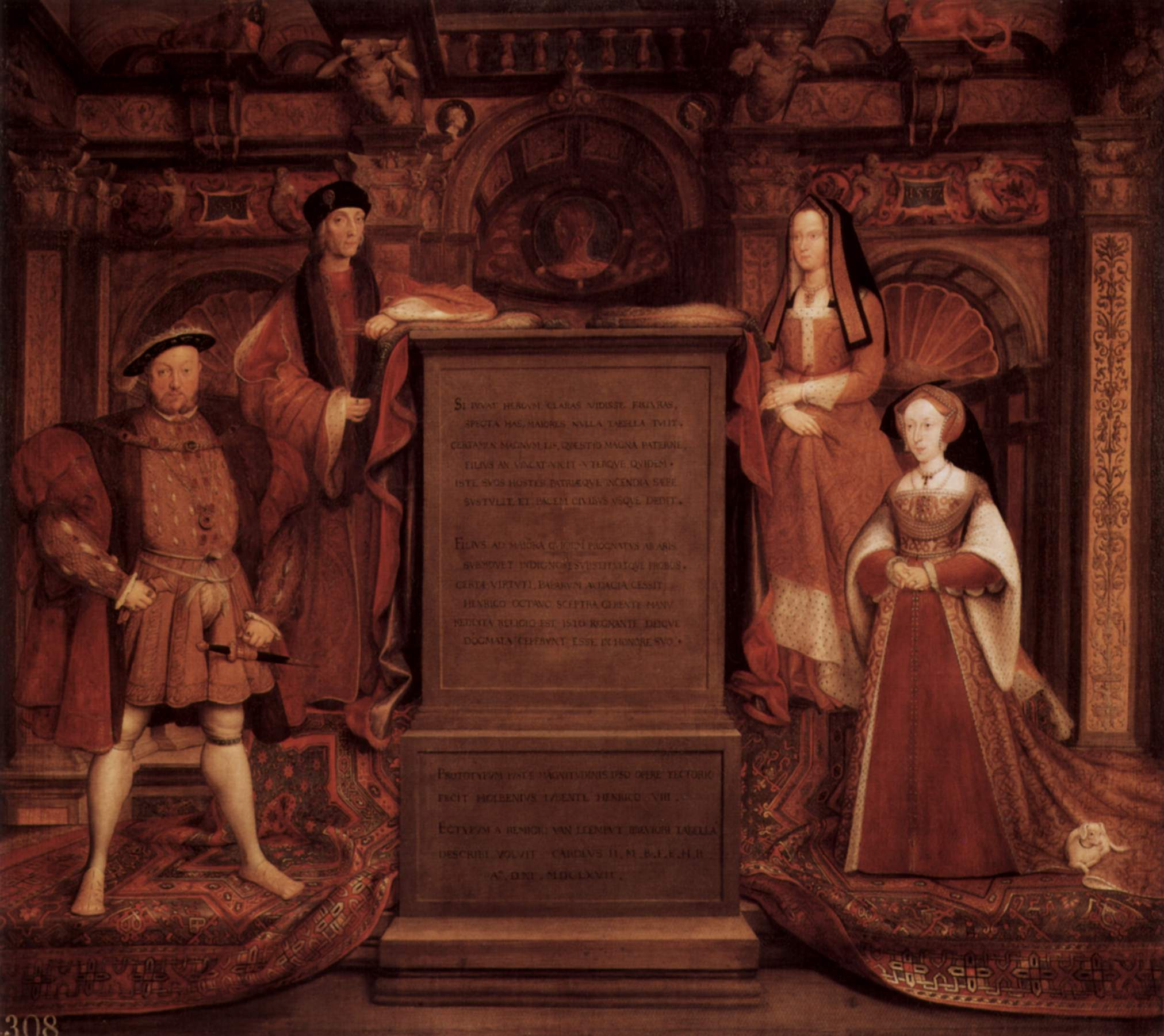 A painting by the artist Van Leemput, after an original mural in the Palace of Whitehall by Hans Holbein the Younger. The original was lost when the palace burned down on 4 January 1698. This is the only complete copy. It was commissioned by Charles II.